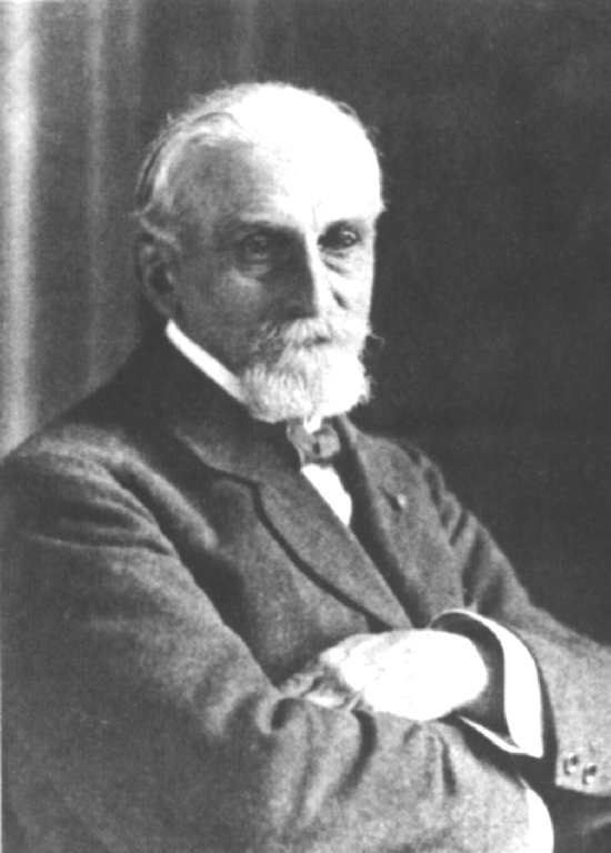 Gustave Gilson, director of the Royal Belgian Institute of Natural Sciences between 1909 and 1925.